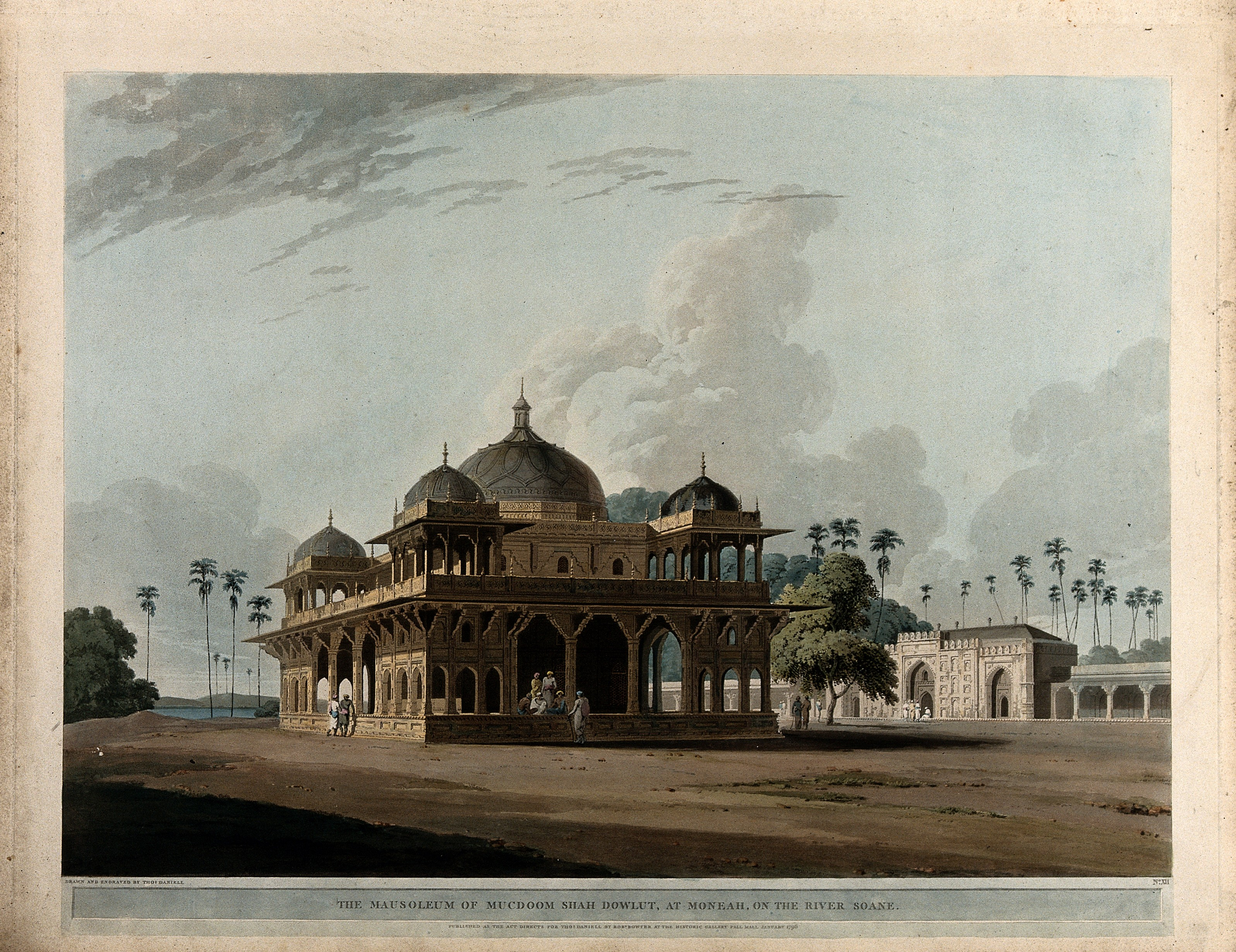 Mausoleum of Makhdam Shah Daulut at Maner, Bihar. Coloured aquatint by Thomas Daniell, 1796. Iconographic Collections Keywords: Thomas Daniell